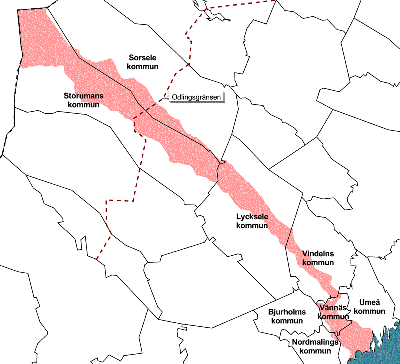 The area used by Ubmeje tjeälddie sameby in Västerbottens län, Sweden. Some of the area nearest to the sea has not been formally decided.